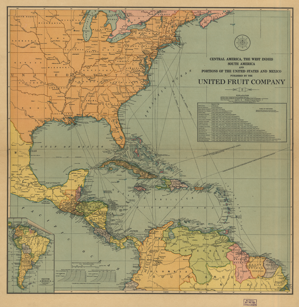 This 1909 map, published by the United Fruit Company, shows the extensive shipping, railroad, and wireless telegraph network built and maintained by the company to carry out its main business, the production and marketing of bananas. United Fruit was founded in 1899 by the merger of the Boston Fruit Company and several other firms involved in the banana industry in Central America, the Caribbean, and Colombia. The history of the company goes back to 1872, when Minor C. Keith began to acquire banana plantations and build a railroad in Costa Rica. Through sophisticated marketing and its complex logistical network, United Fruit managed to make bananas, previously an unknown tropical fruit, into a basic food in the United States and Western Europe. Notwithstanding these achievements, United Fruit was often the target of political opposition in the countries in which it operated, accused of neglecting its workers and manipulating governments for its own ends, hence the term “banana republic.” Telegraph, Wireless; Transportation